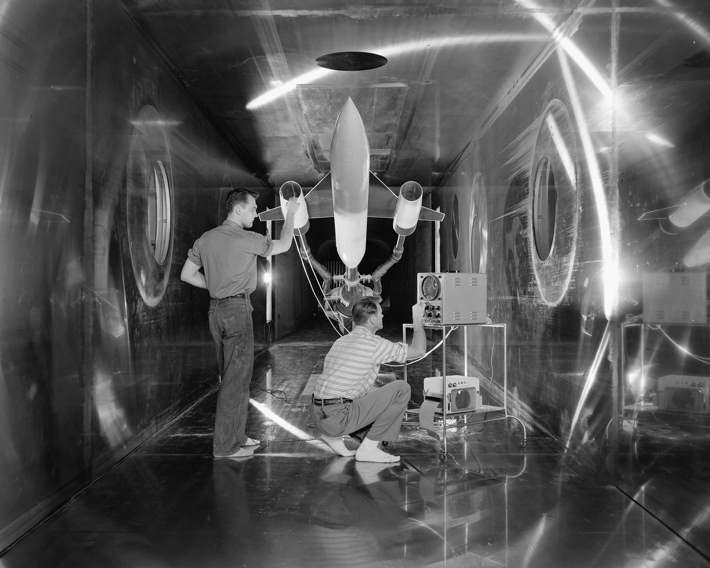 Engineers making a check on body of a model of a supersonic aircraft before a test run in the 10ft x 10ft Supersonic Wind Tunnel test section.